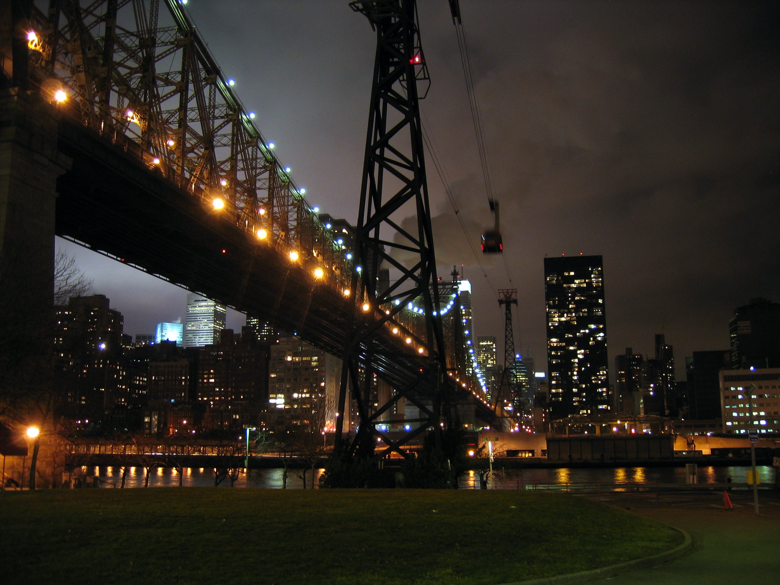 Taken from Roosevelt Island, Roosevelt Island Tramway also in view